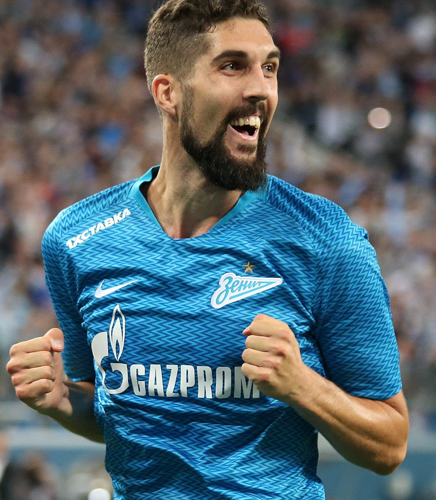 Miha Mevlja